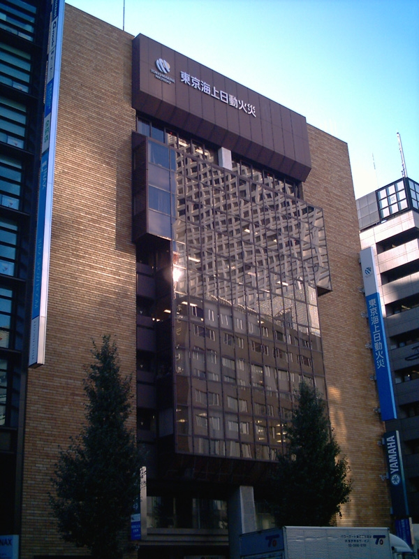 Tokio_Marine_&_Nichido_Fire_Insurance Tokyo Japan